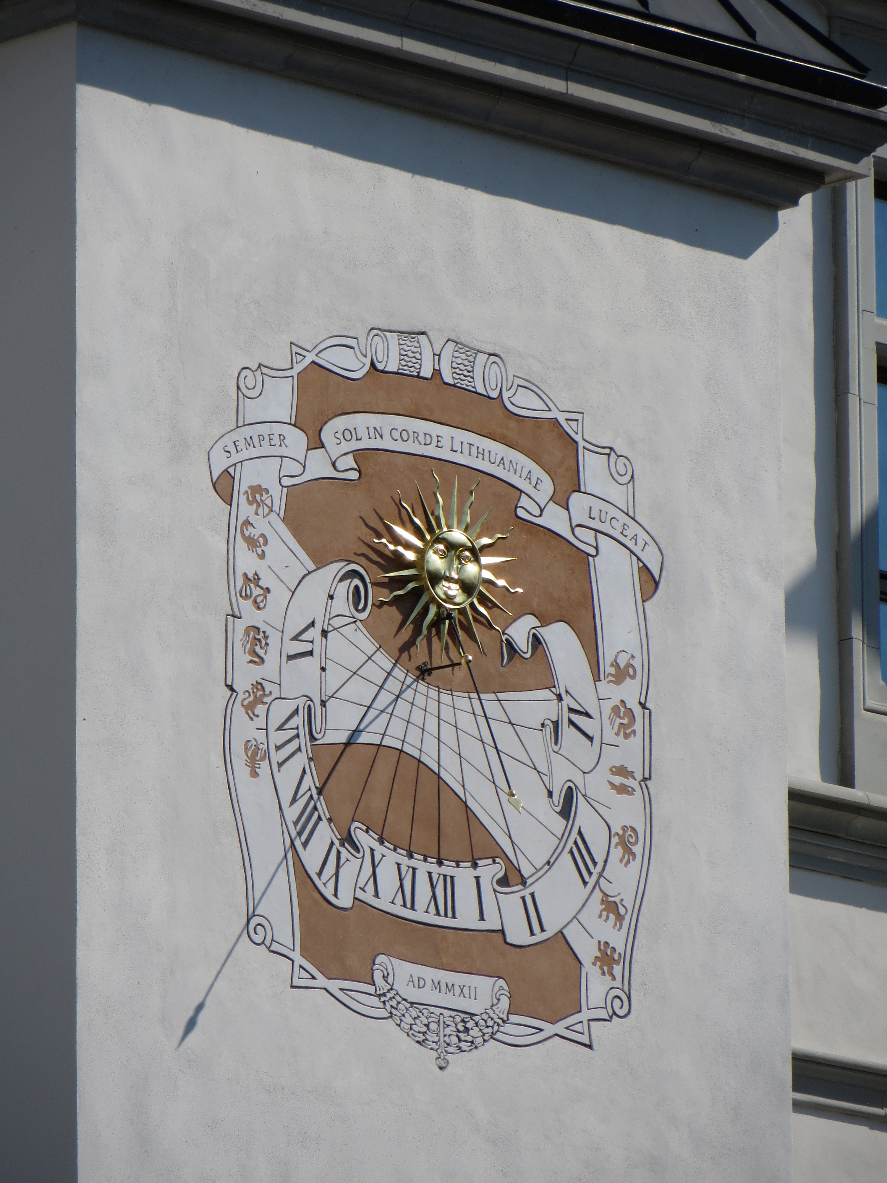 The sundial on the south wall of the Palace of the Grand Dukes of Lithuania on Cathedral Square in Vilnius isn't as old as one may think - it says "AD MMXII" below, so it was built in 2012.